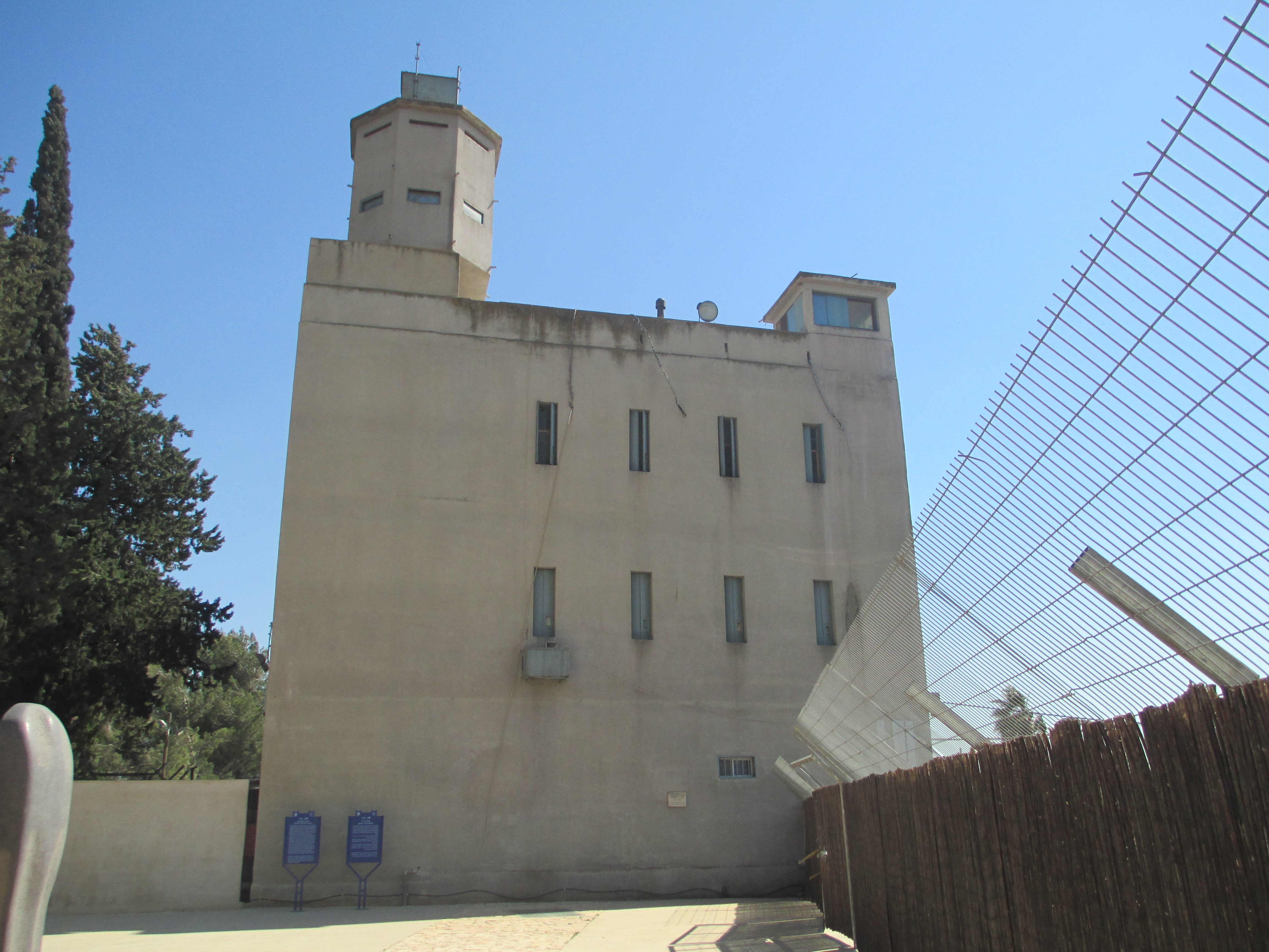 Metzudat Koach